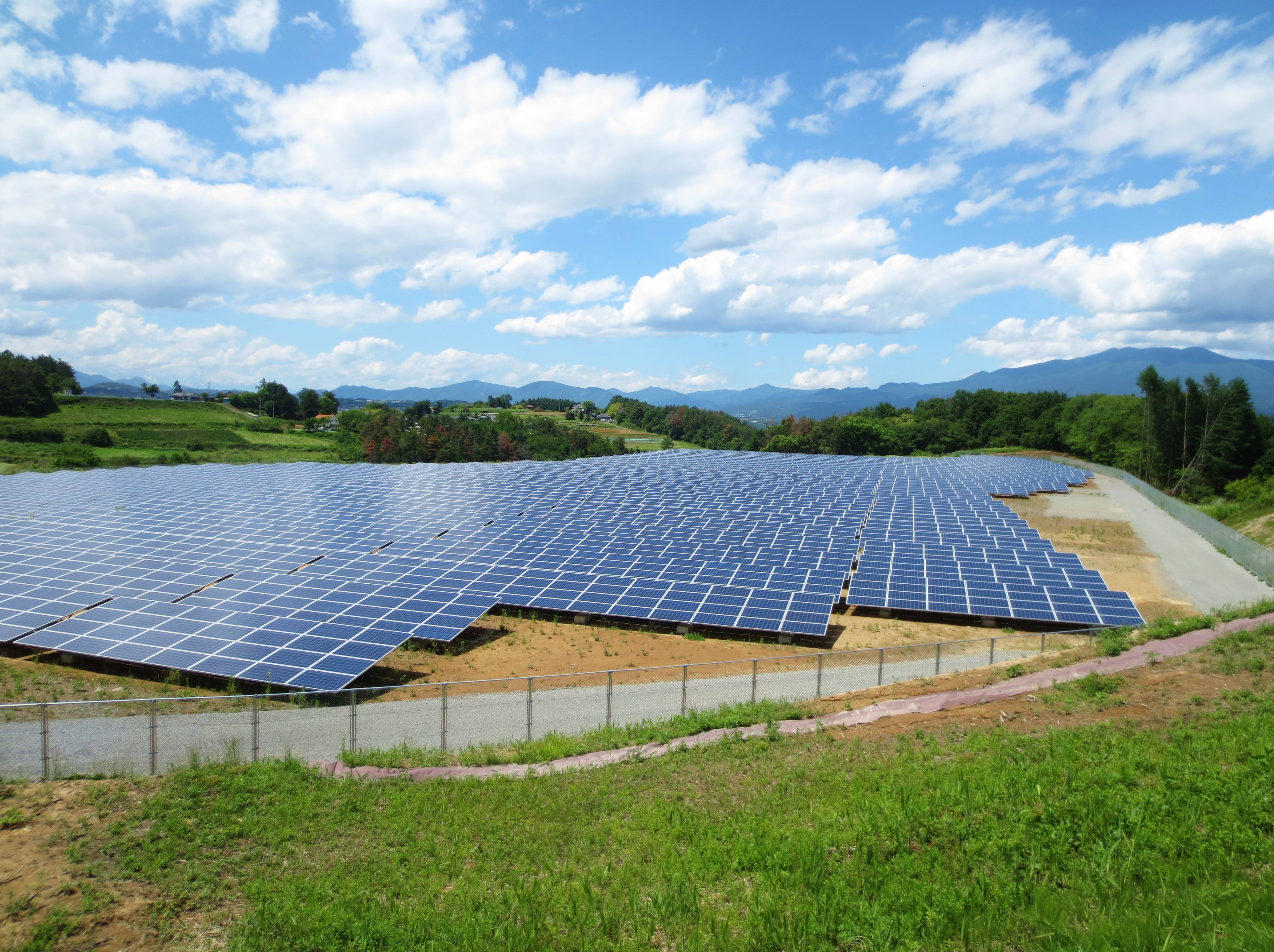 Saku Mega Solar.